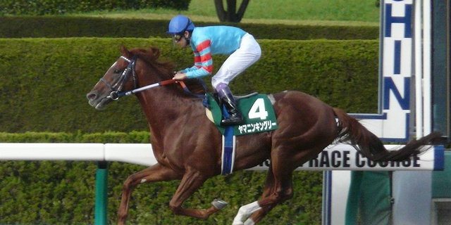 Yamanin-Kingly20111001(2)